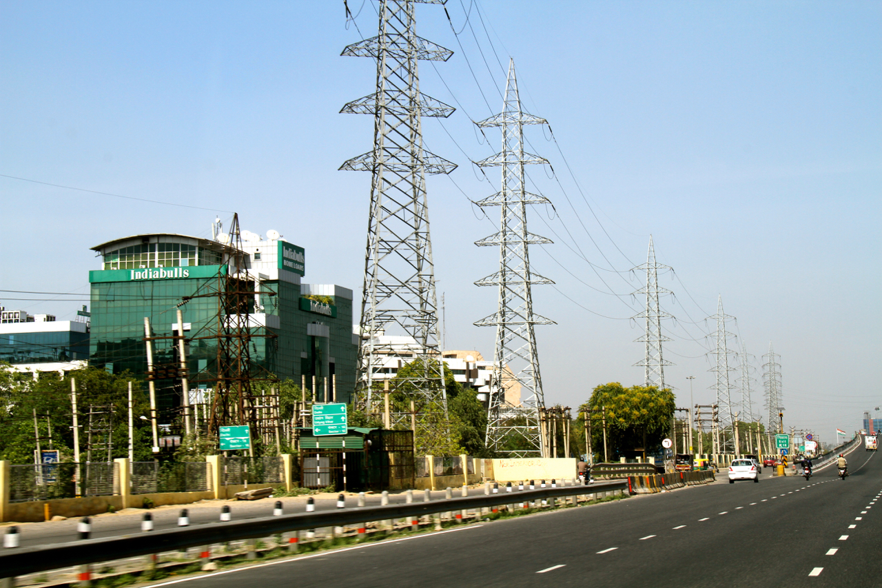 4+ lane highways in India with Industrial corridor, road network from Jaipur to Delhi airport Rajasthan, Haryana and Delhi